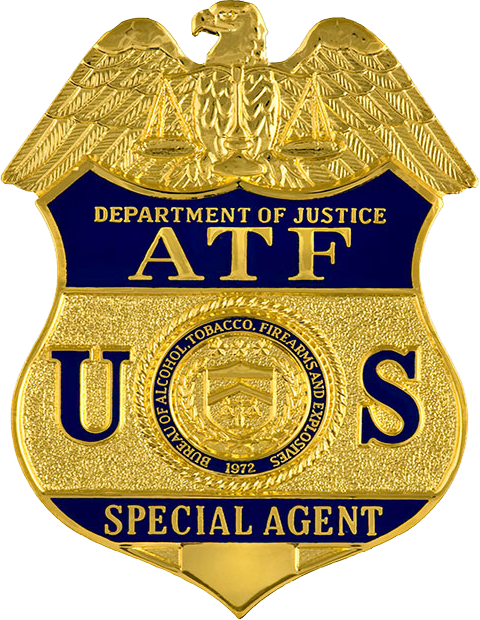 ATF badge